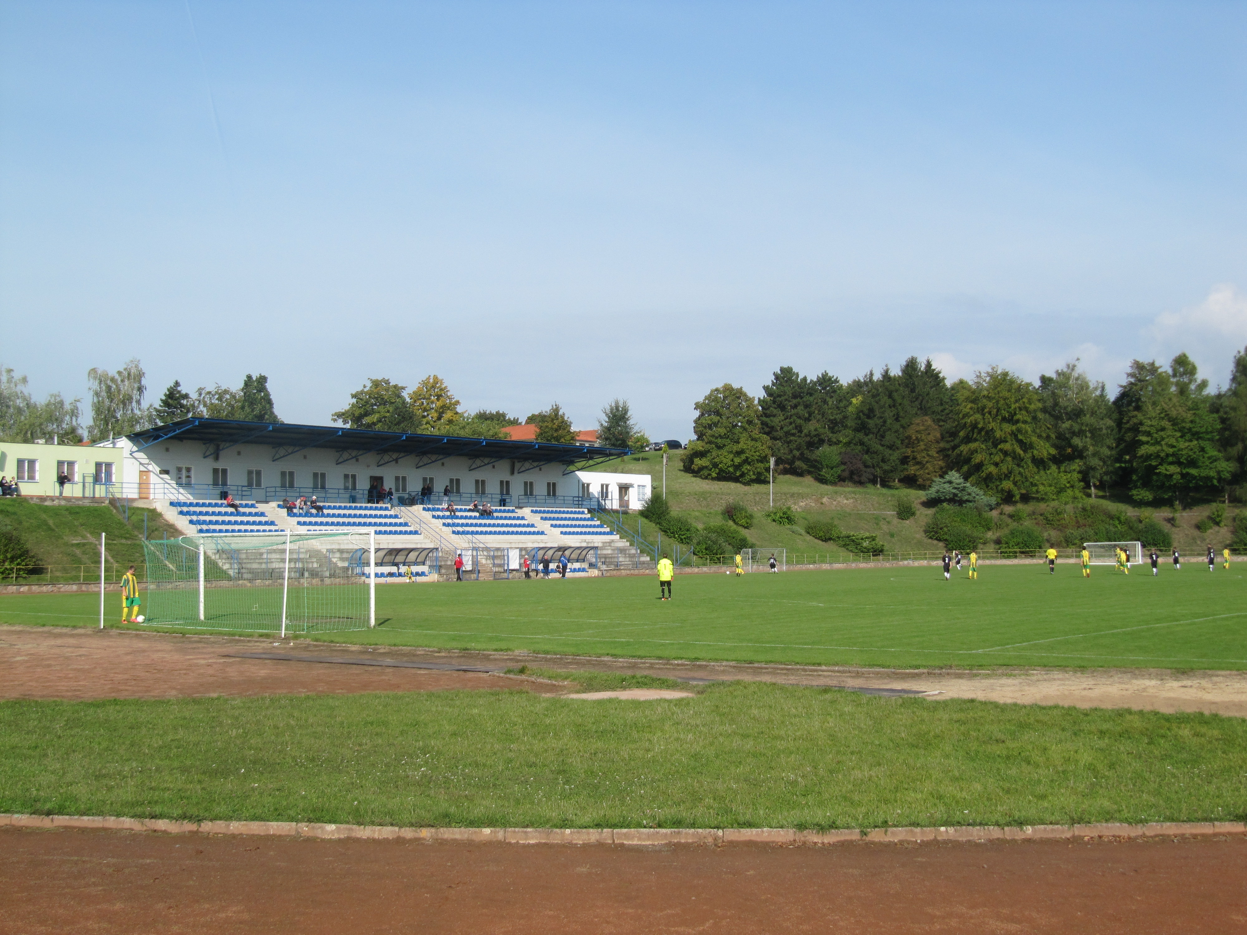 Slavkov u Brna in Vyškov District, Czech Republic.